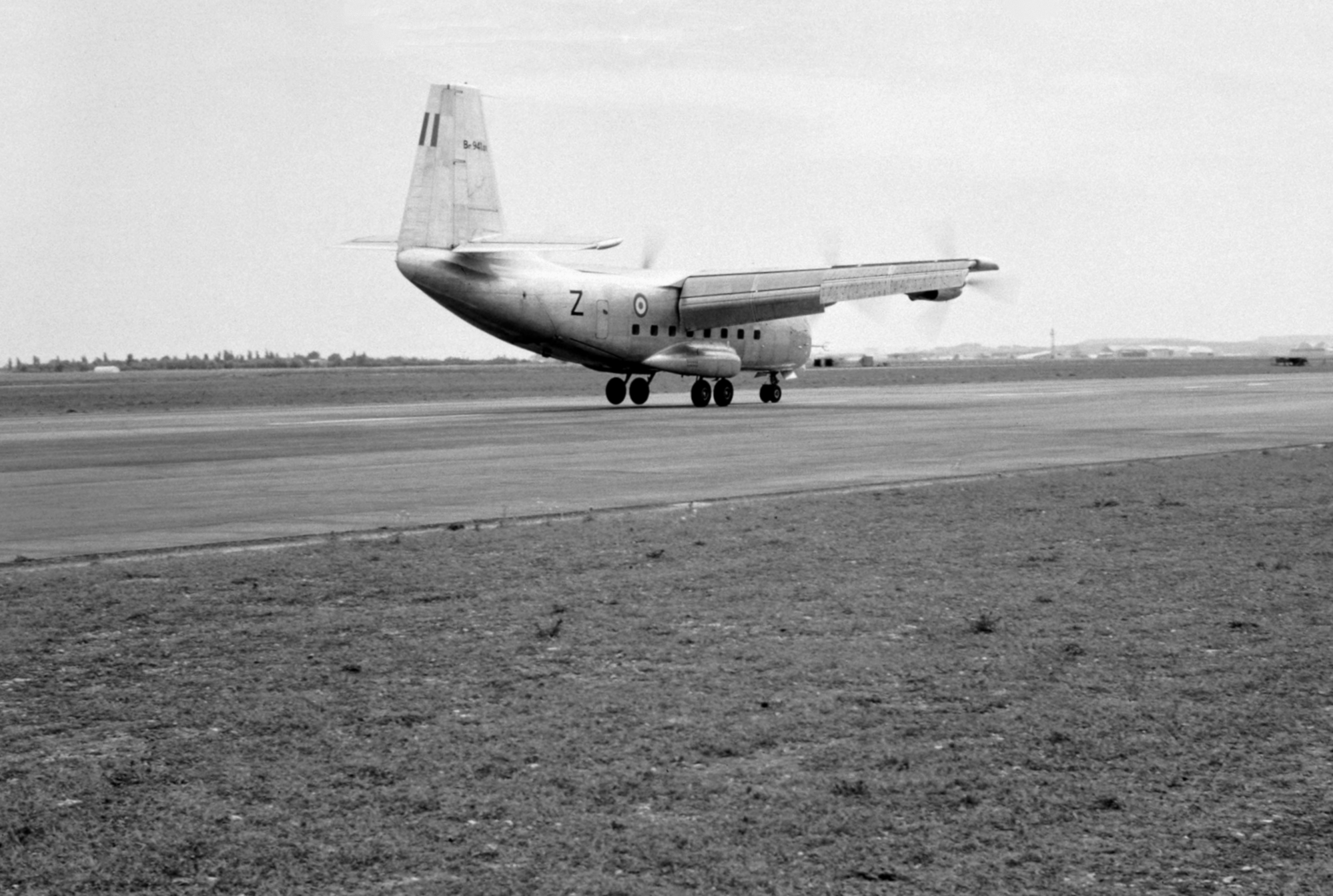 Flight evaluation of a Breguet 941 STOL airplane at the NASA Ames Research Center, in May 1963.